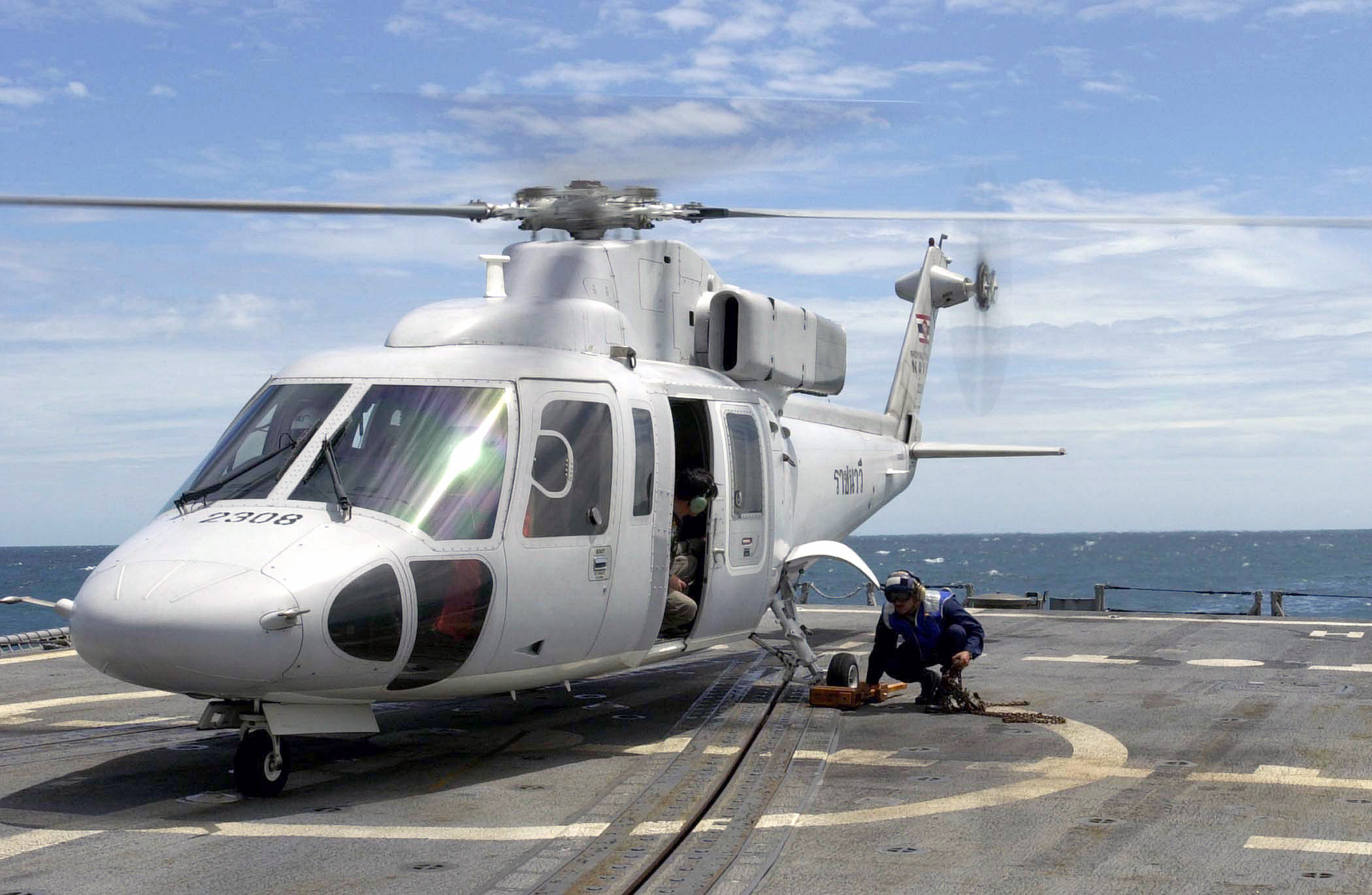 A Royal Thai Navy (RTN) Sikorsky S-76B helicopter, is secured to the flight deck onboard the USS CURTS (FFG 38) during Cooperation Afloat Readiness and Training (CARAT) Exercise 2001.